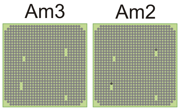 Diagram of the pins on the AM3 and AM2(+) sockets. The black pins on the AM2 are additional/optional.